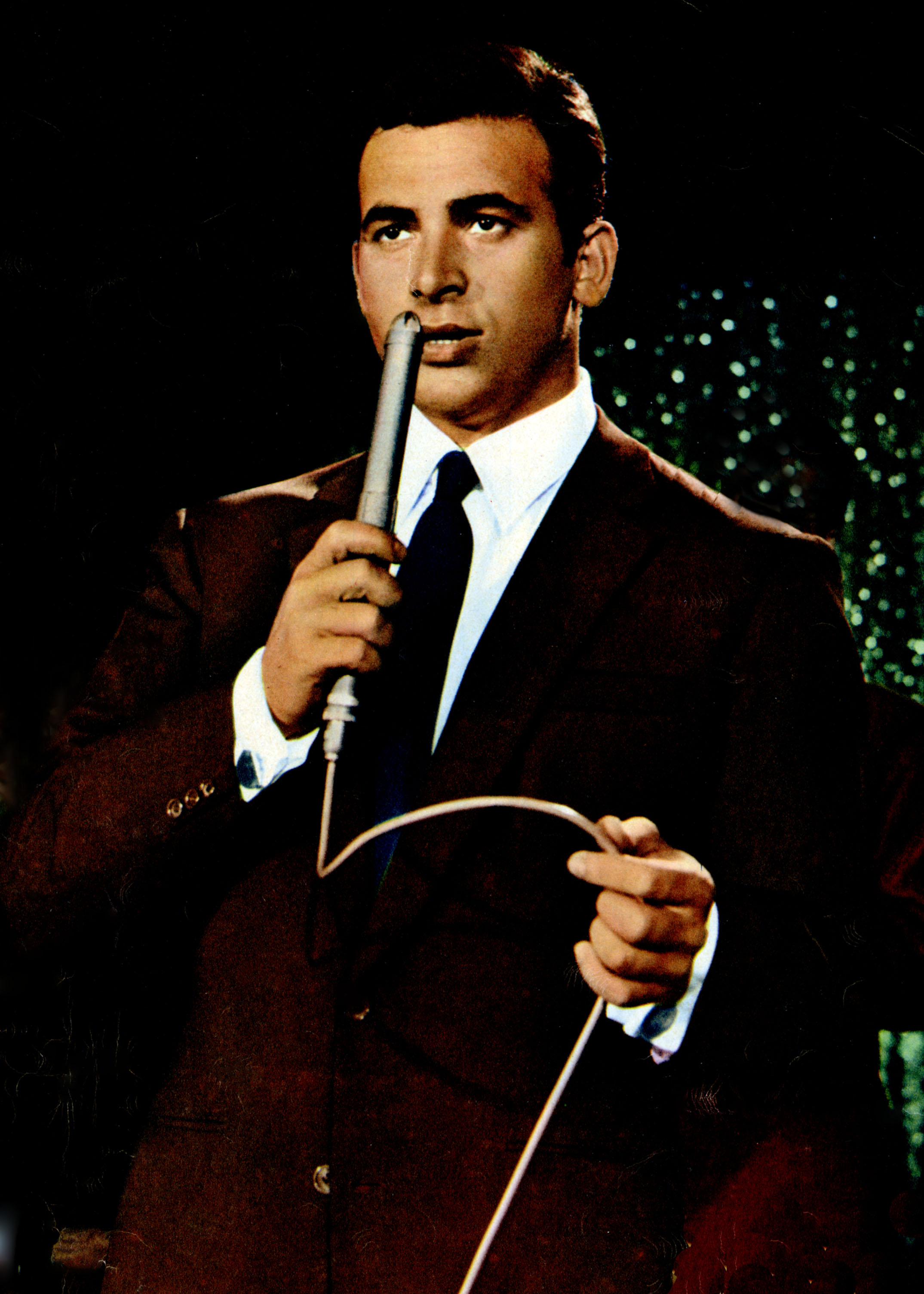 cropped screenshot from the film Le magnifiche sette (1961)